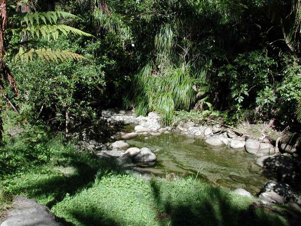 Stream through native bush at Nikau Pools in Morere Hot Springs reserve.